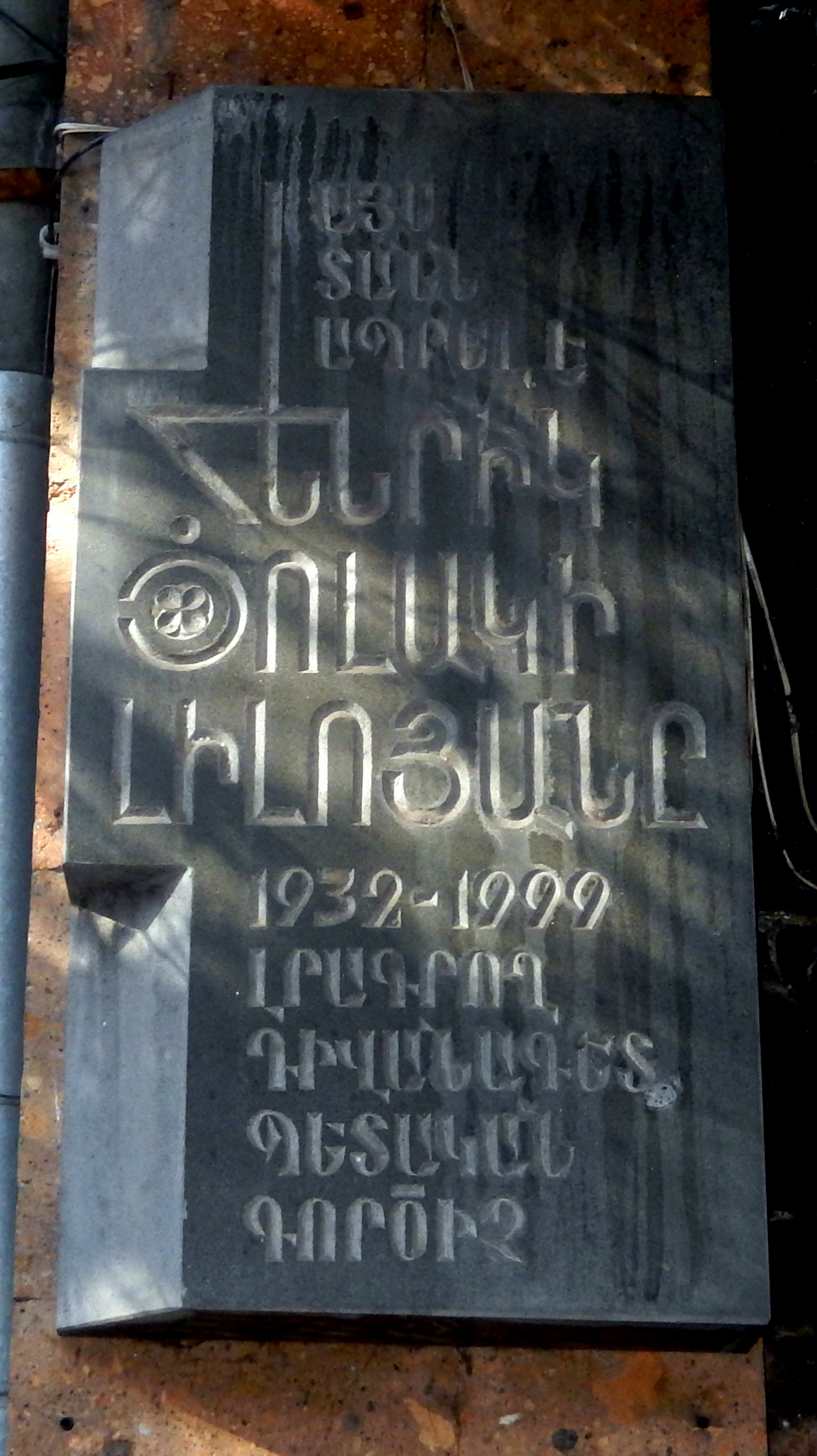 Henrik Liloyan's plaque on Mashtots Avenue, Yerevan